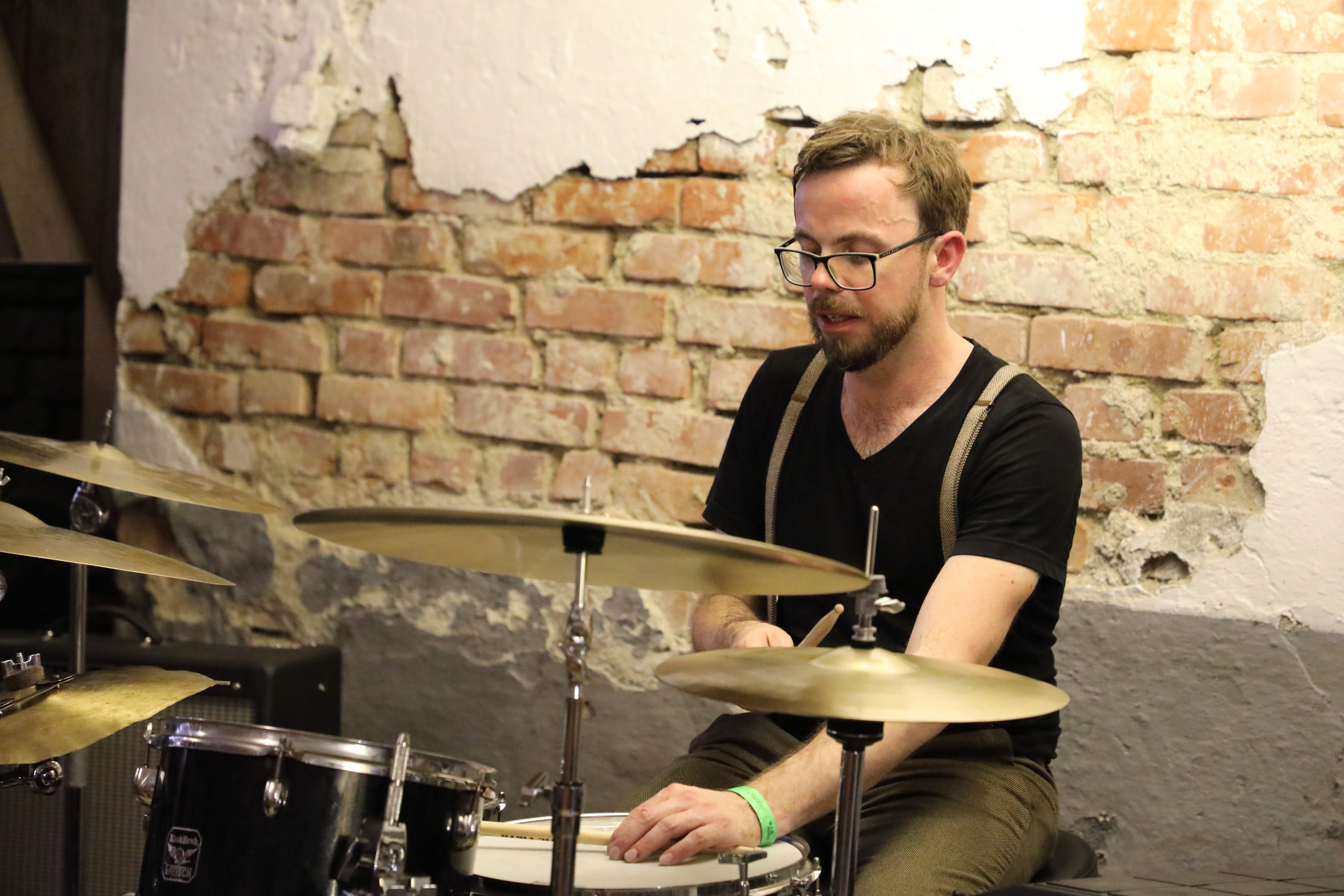 FAT - Fabulous Austrian Trio at INNtöne Jazzfestival 2019. FAT are Alex Machacek (g), Raphael Preuschl (b) & Herbert Pirker (dr).